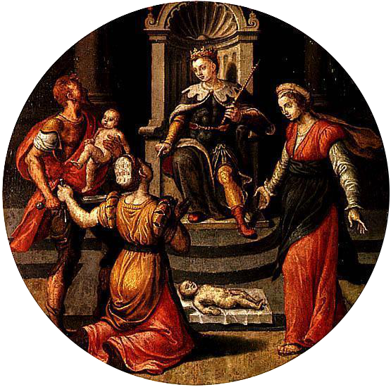 Judgement of Salomon